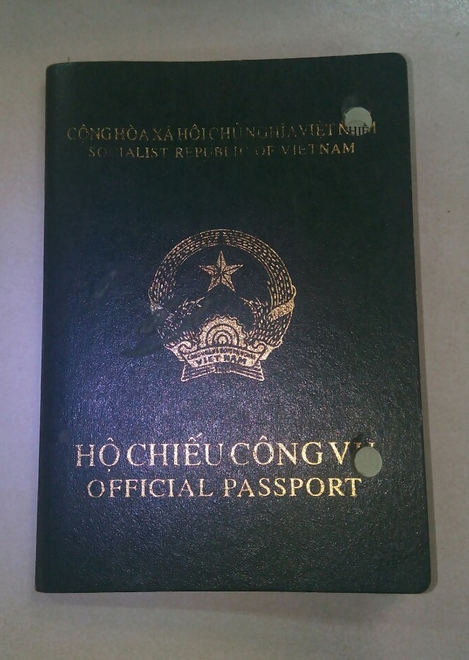 Vietnamese official passport expired with to punched holes